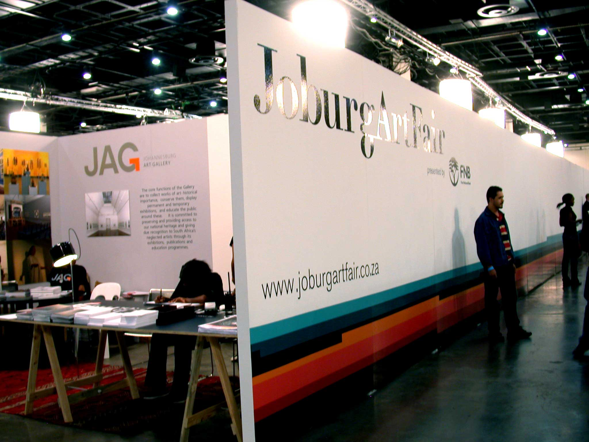 Joburg Art Fair at the Sandton Convention Centre in Johannesburg